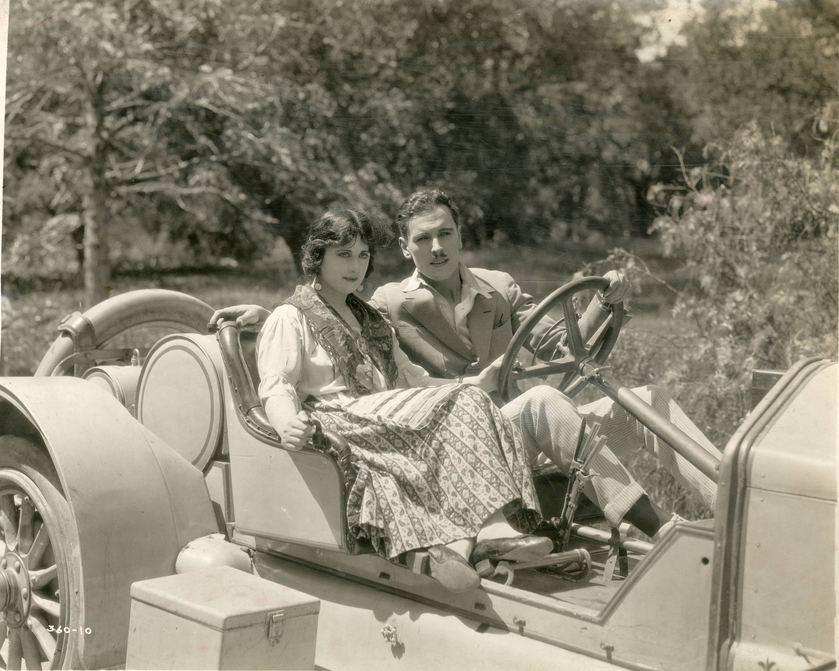 A scene from the American drama film The Tiger Lily (1919), which played at the Mission Theater, Seattle. Includes Margarita Fisher. Date stamped Oct. 28, 1919. Subjects: motion pictures, actresses